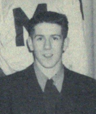 Jack Martin, circa 1956